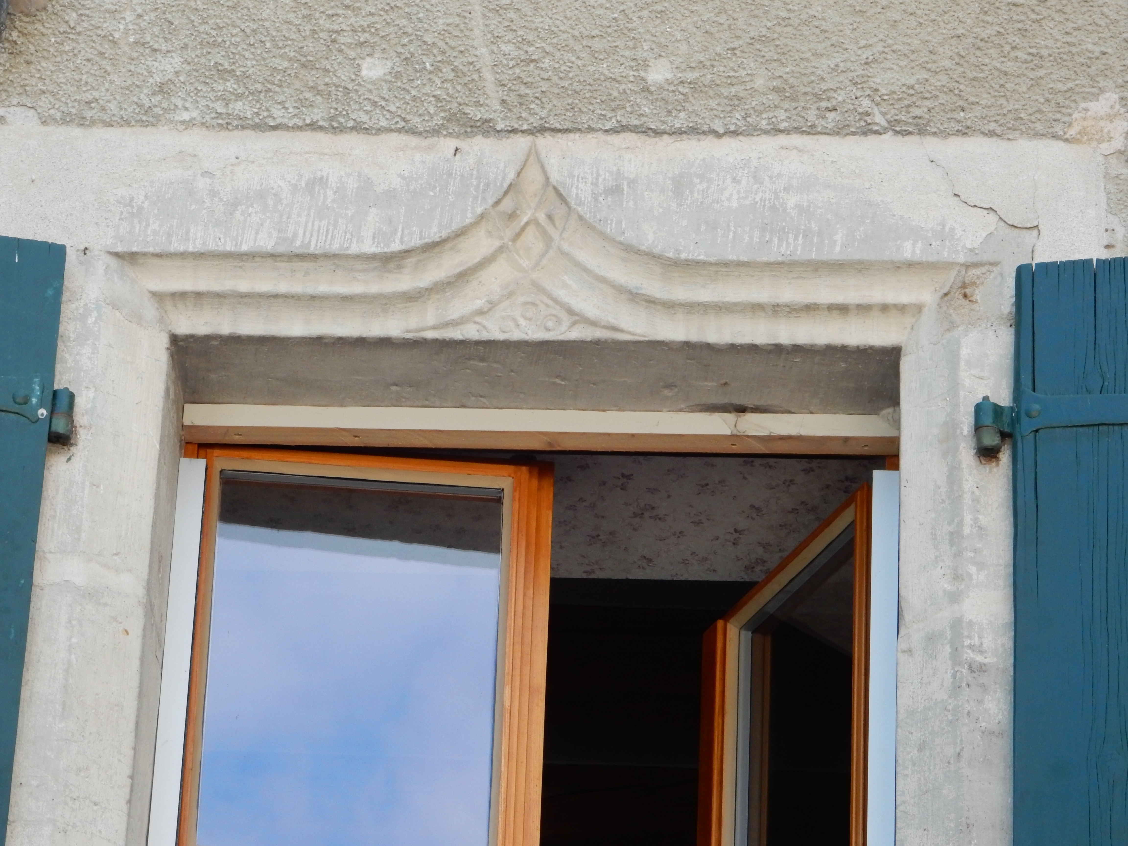 Nyon, Bois-Bougy, Noth side, decorated window, XVIth cent., detail